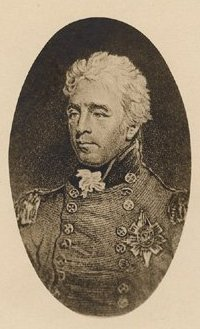 Portrait of William Cathcart, 1st Earl Cathcart Wrong name:Charles Murray Cathcart